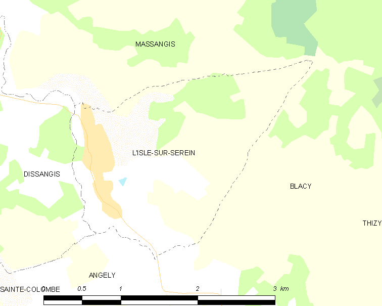 Map of French municipality L'Isle-sur-Serein